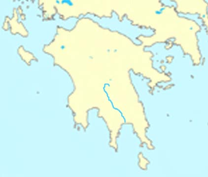 Eurotas river